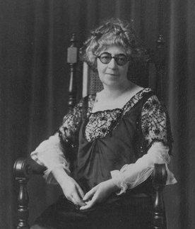 Beatrice DeMille - 1922 guess - she died in 1923